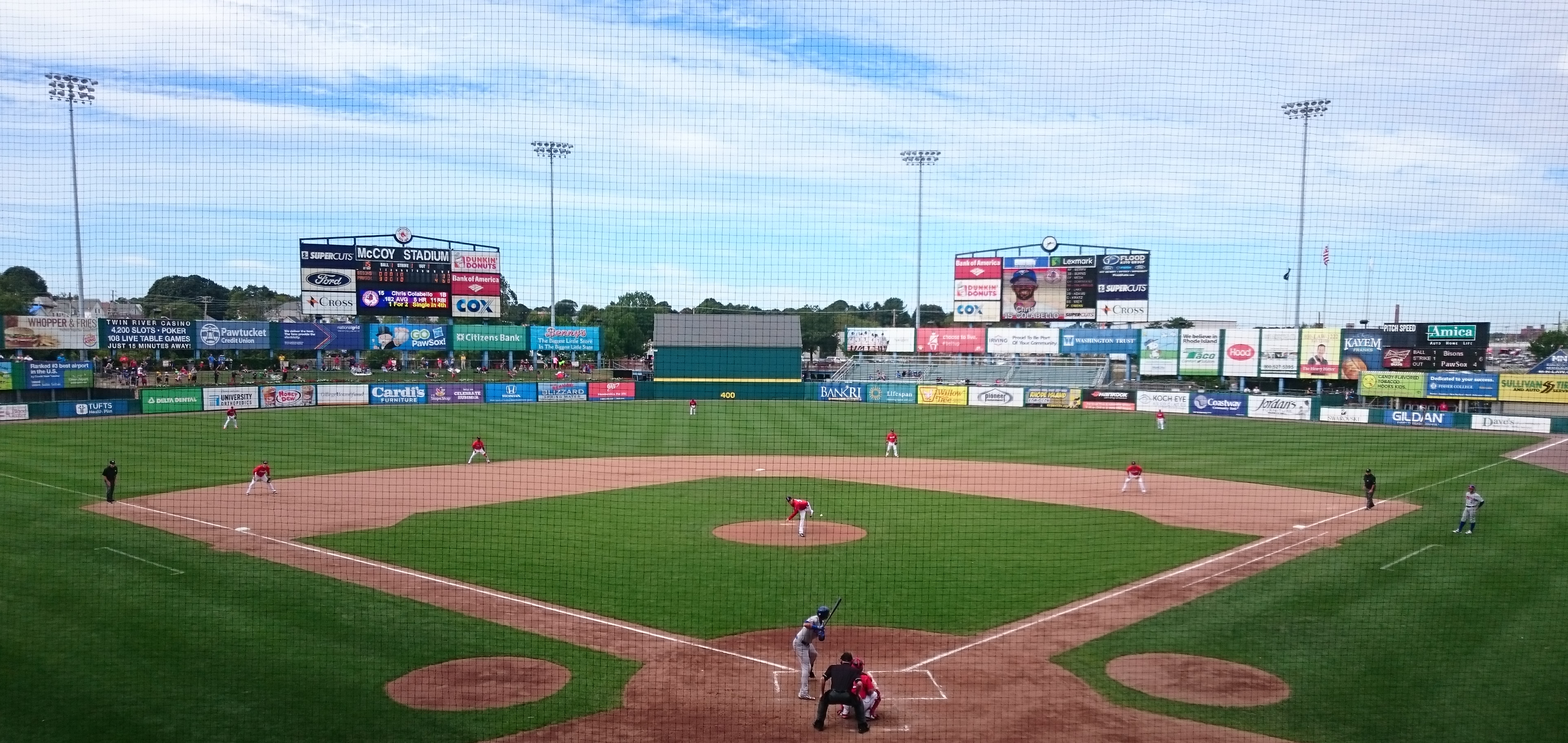 Pawtucket Red Sox vs. Buffalo Bisons at McCoy Stadium, Pawtucket, Rhode Island. Henry Owens is the pitcher.